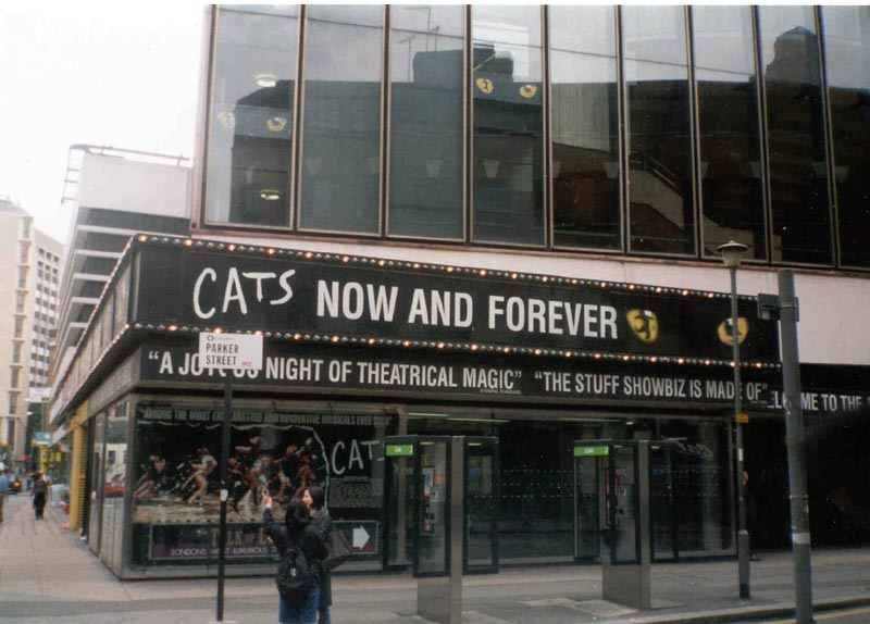 Cats the Musical at the New London Theatre in June 1999.